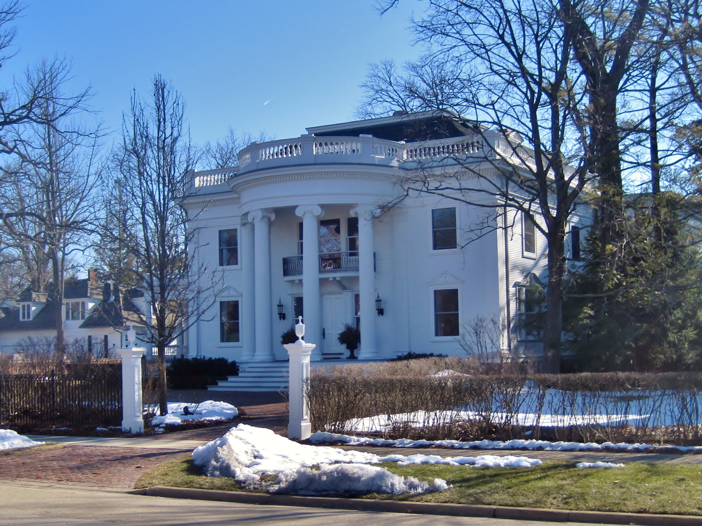 Root-Badger House in Kenilworth (1896). It was designed by Daniel Burnham for music publisher Frank Root. It was built by Paul Starrett, who also built the Empire State Building, Lincoln Memorial, and Flatiron Building.